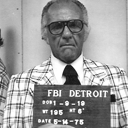 Detroit Partnership member Anthony Giacalone.